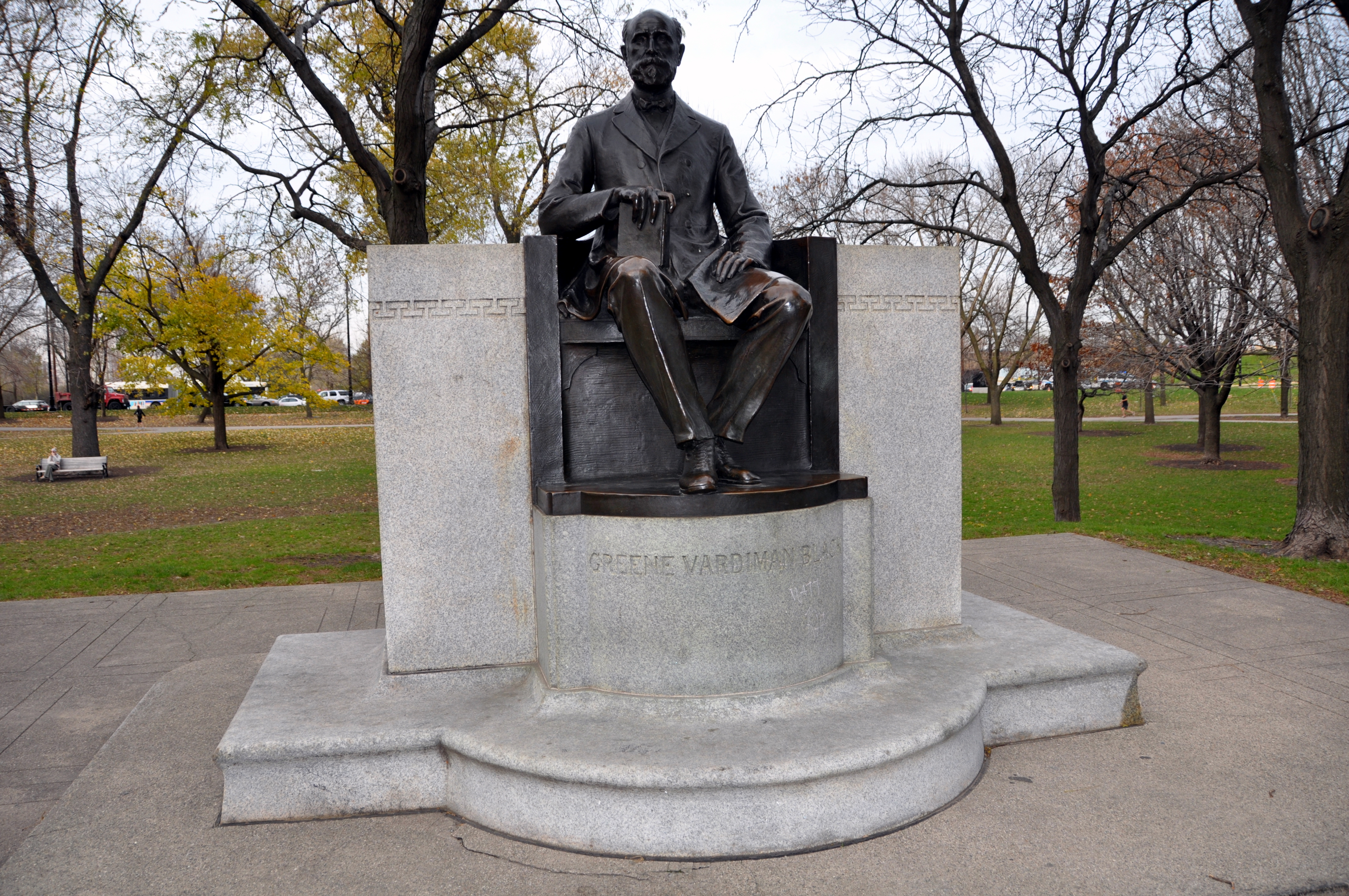 A photo of the Statue of Greene Vardiman Black in Lincoln Park Chicago, Illinois. The photo was taken November 12, 2011